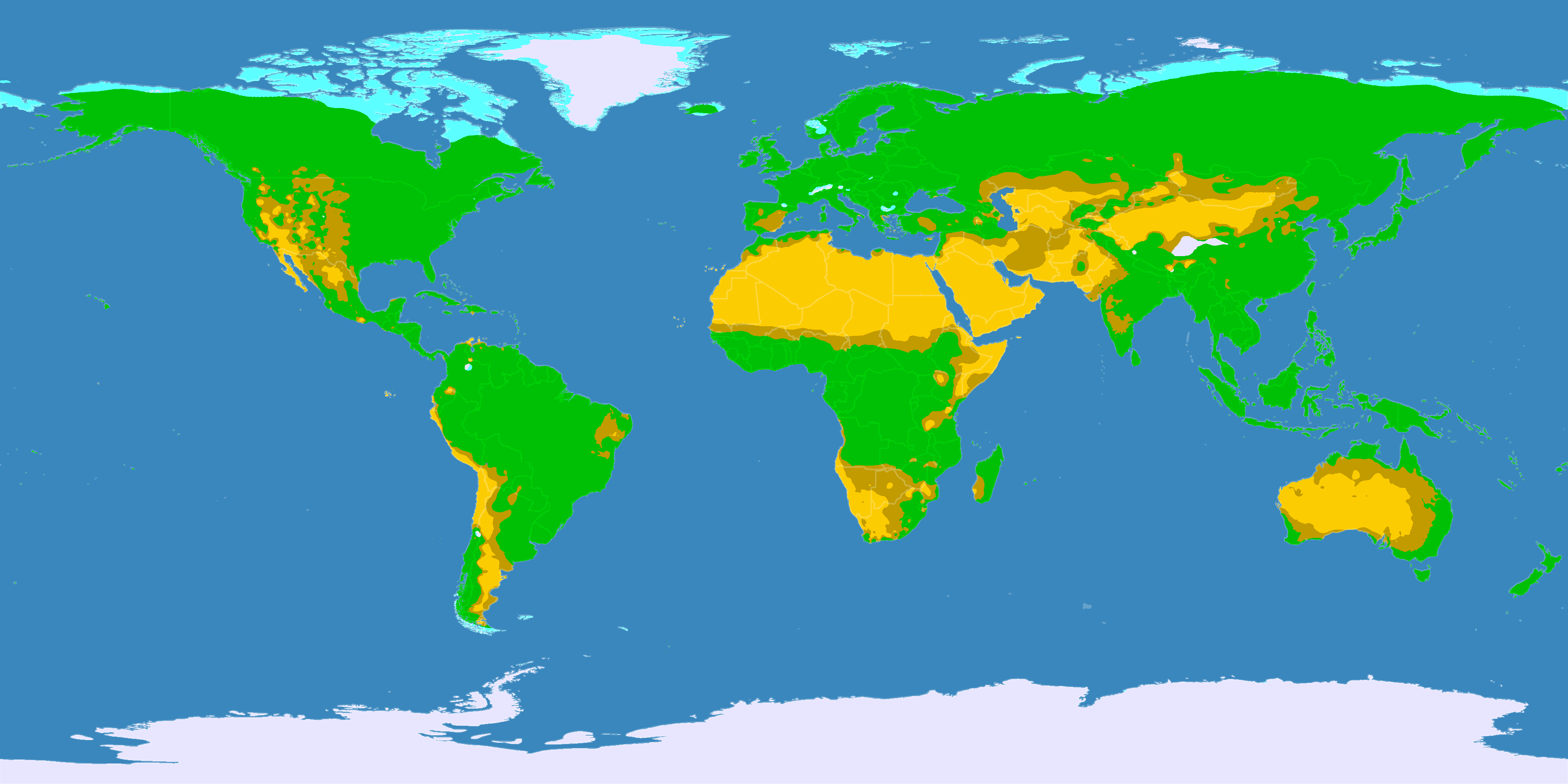 This map shows the Earth zones with a dry climate. Desert climate Savanna climate Tundra climate Ice cap climate